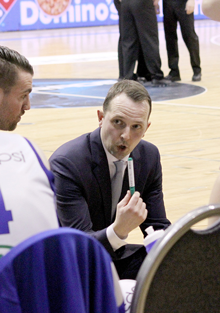 Hrafn Kristjánsson with Stjarnan men's basketball team in February 2015